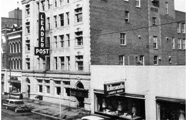 Regina Leader-Post in 1967 prior to relocation to new building on the east end of the city